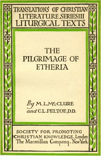 Portada do libro The Pilgrimage of Etheria, in a 1919 translation by M.L. McClure and C.L.